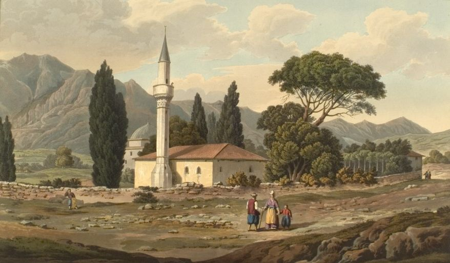 The dervish sepulchre of Hassan Baba in the Tempe Valley